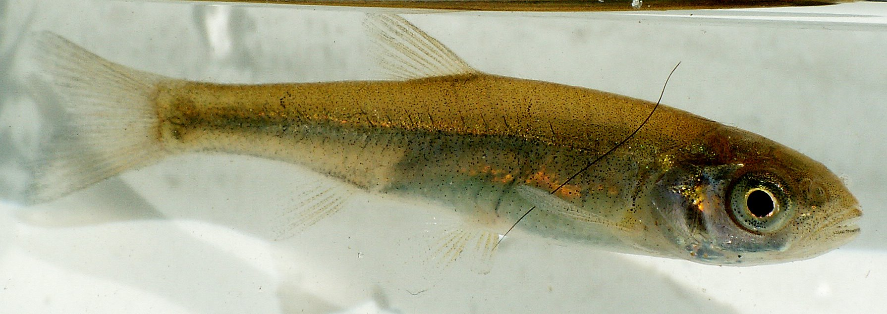 Very young Squalius cephalus (ca 4 cm), Nederrijn the Netherlands